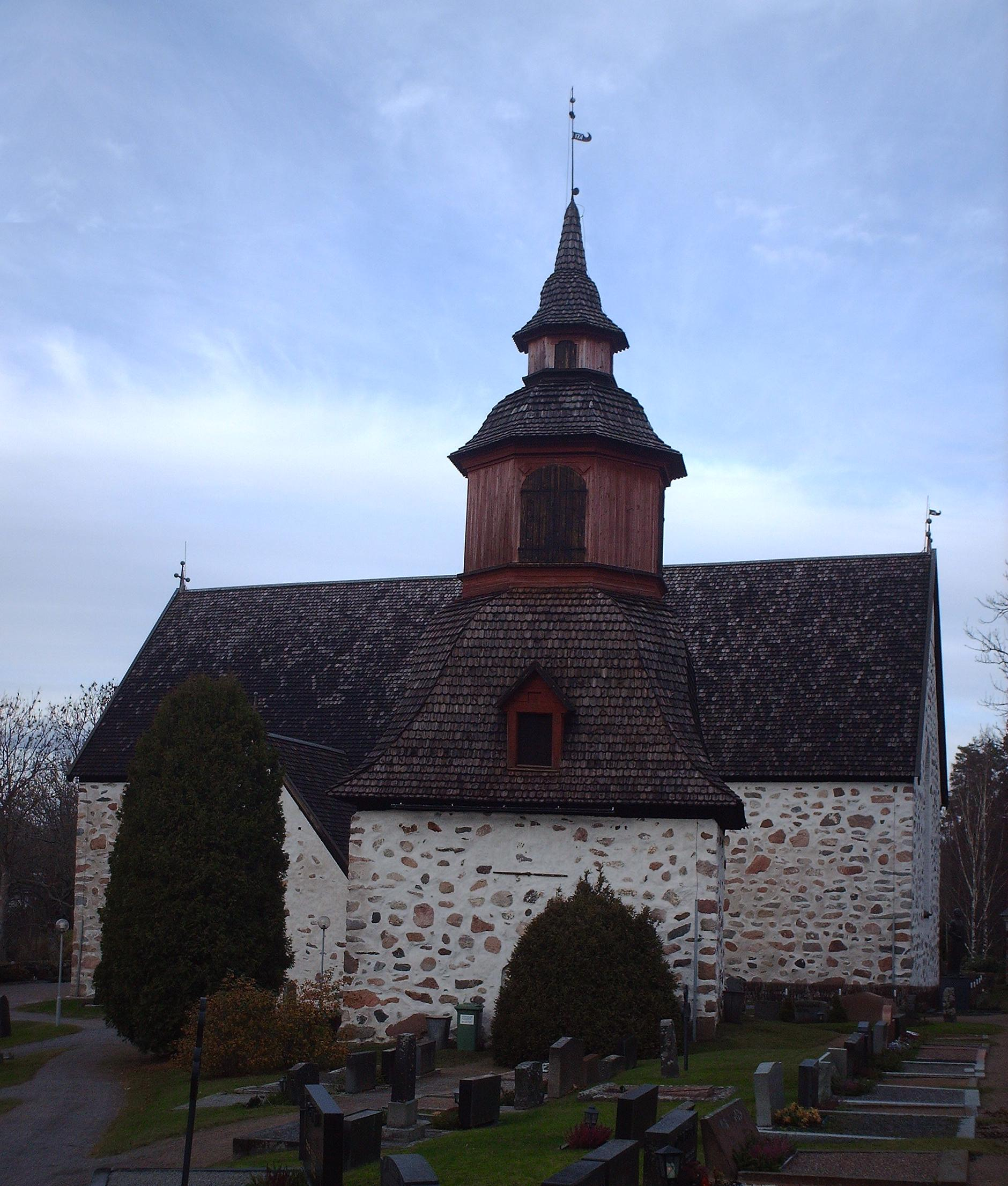 Tenala Church in Ekenäs (now part of Raseborg), Finland